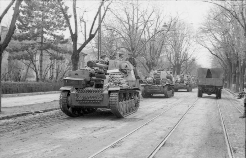 Information added by Wikimedia users.